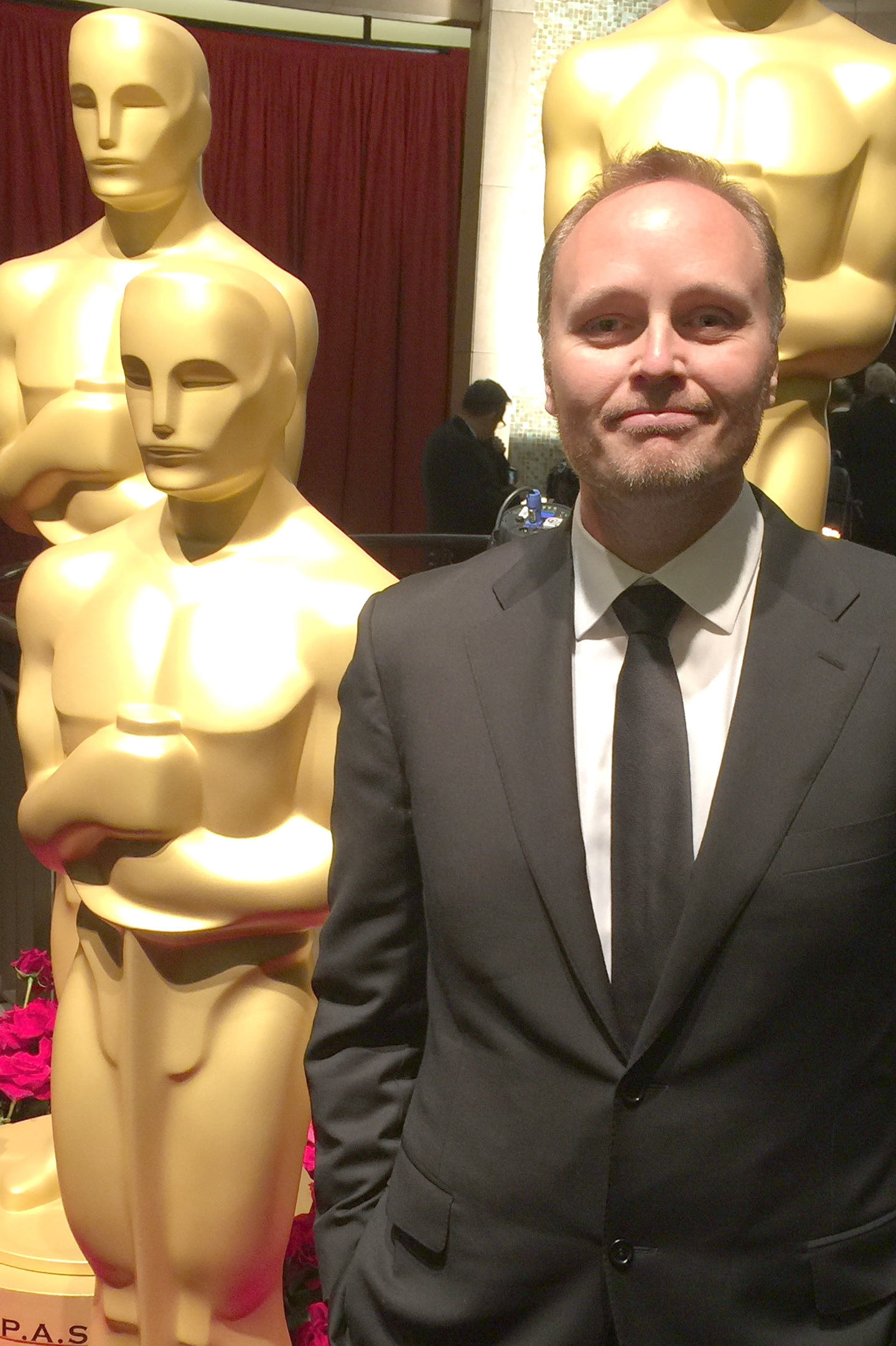 Stephane Ceretti at the 2015 Oscars ceremony, Los Angeles. Mr. Ceretti was nominated as Visual Effects Supervisor on "Guardians of the Galaxy".